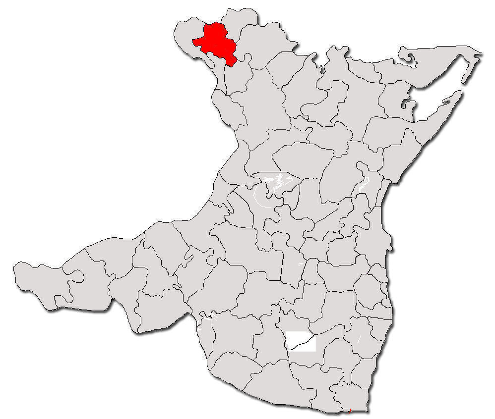 Contour map of commune Ciobanu